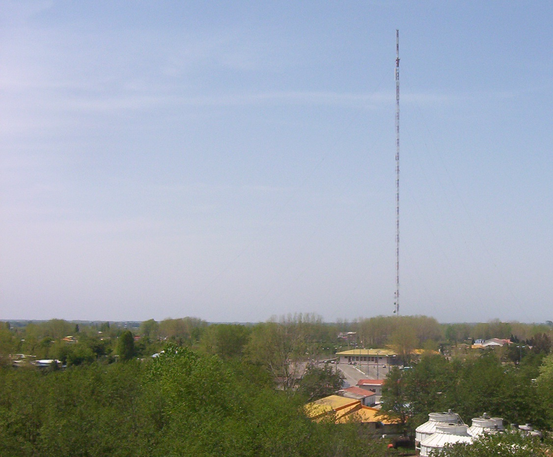 Zibakenar TV Mast, Gilan, Iran